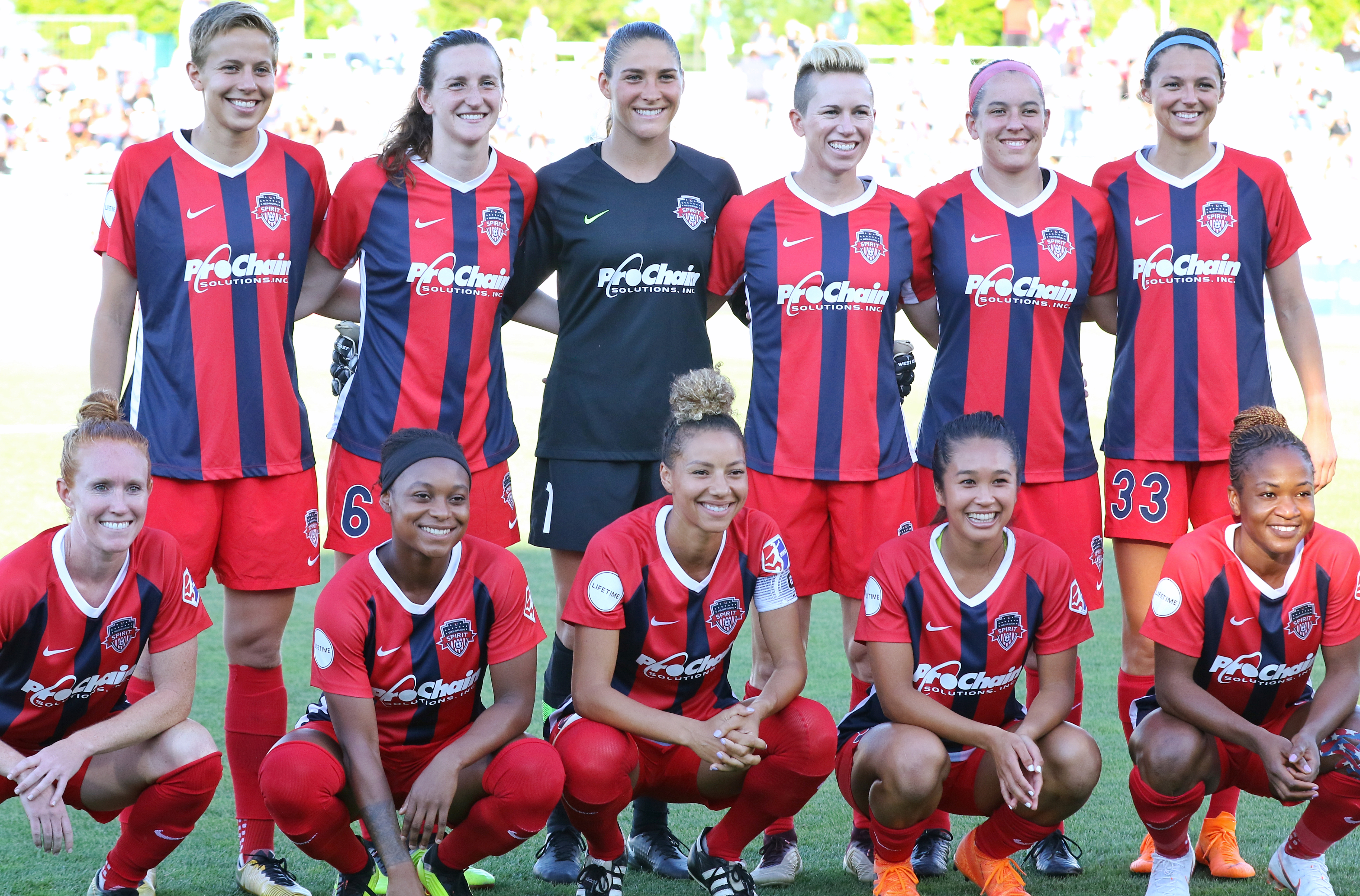 Washington Spirit playing against Orlando Pride on June 23, 2018.